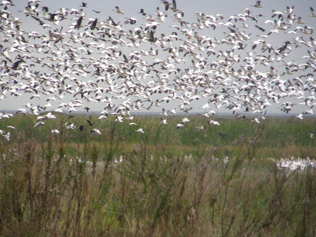 Snow Geese — in the Anahuac Wildlife Refuge, southeastern Texas.